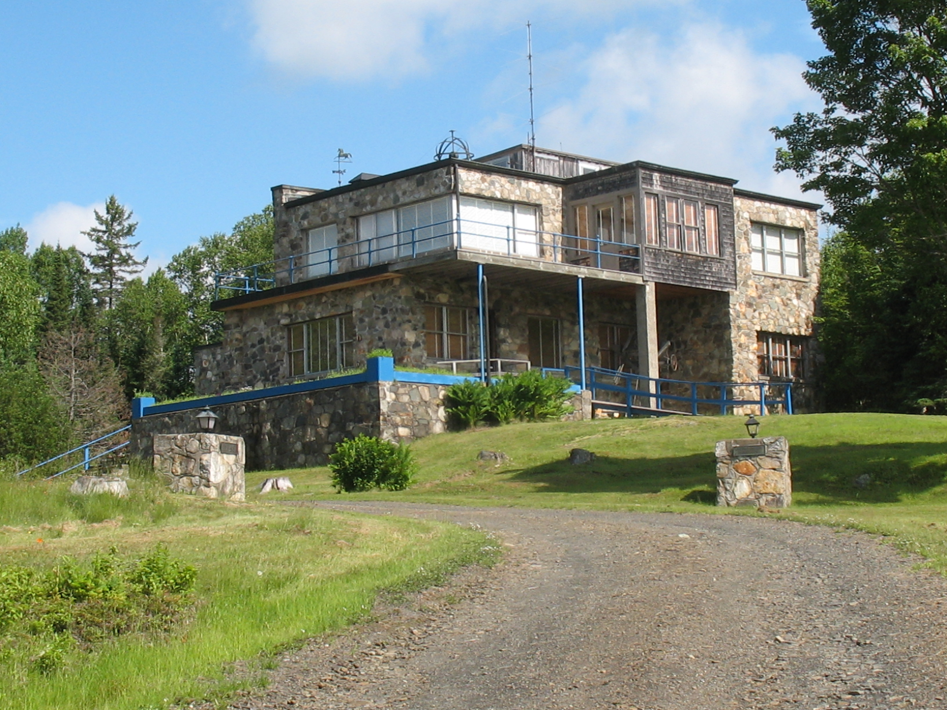 main building, Wilhelm Reich museum, Rangeley, Maine